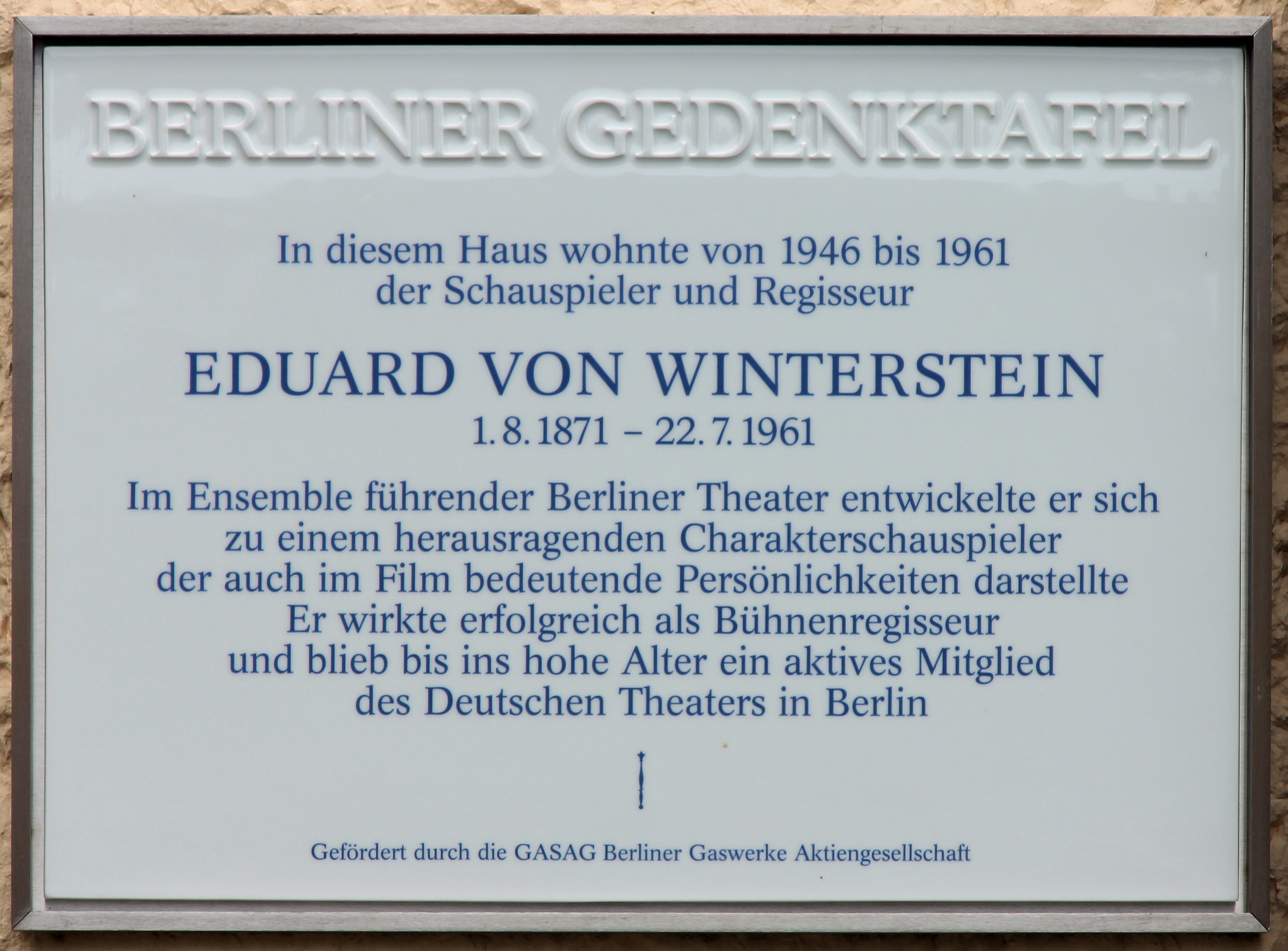 Berlin memorial plaque, Eduard von Winterstein, Hafersteig 38, Berlin-Biesdorf, Germany